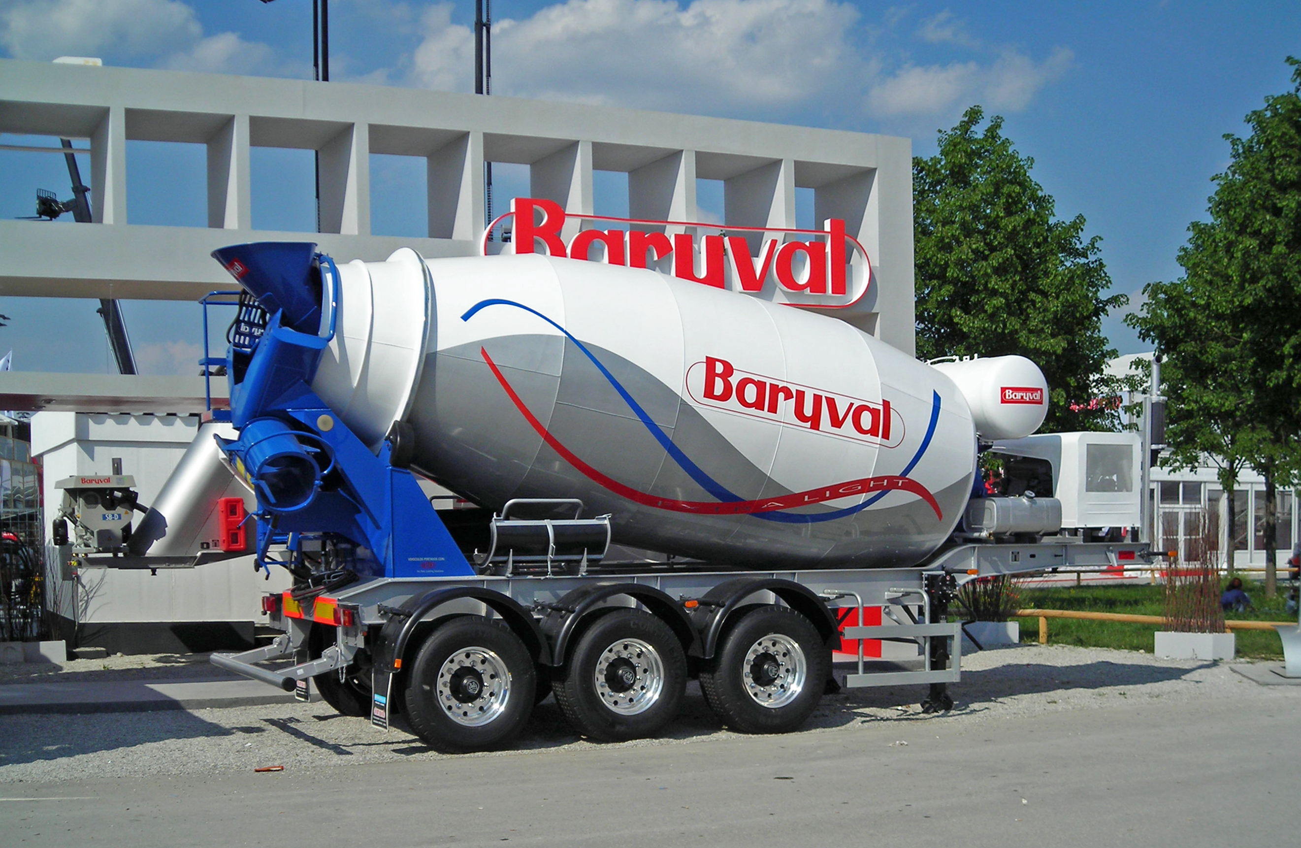 Semitrailer constructed as concrete mixer by Baryval